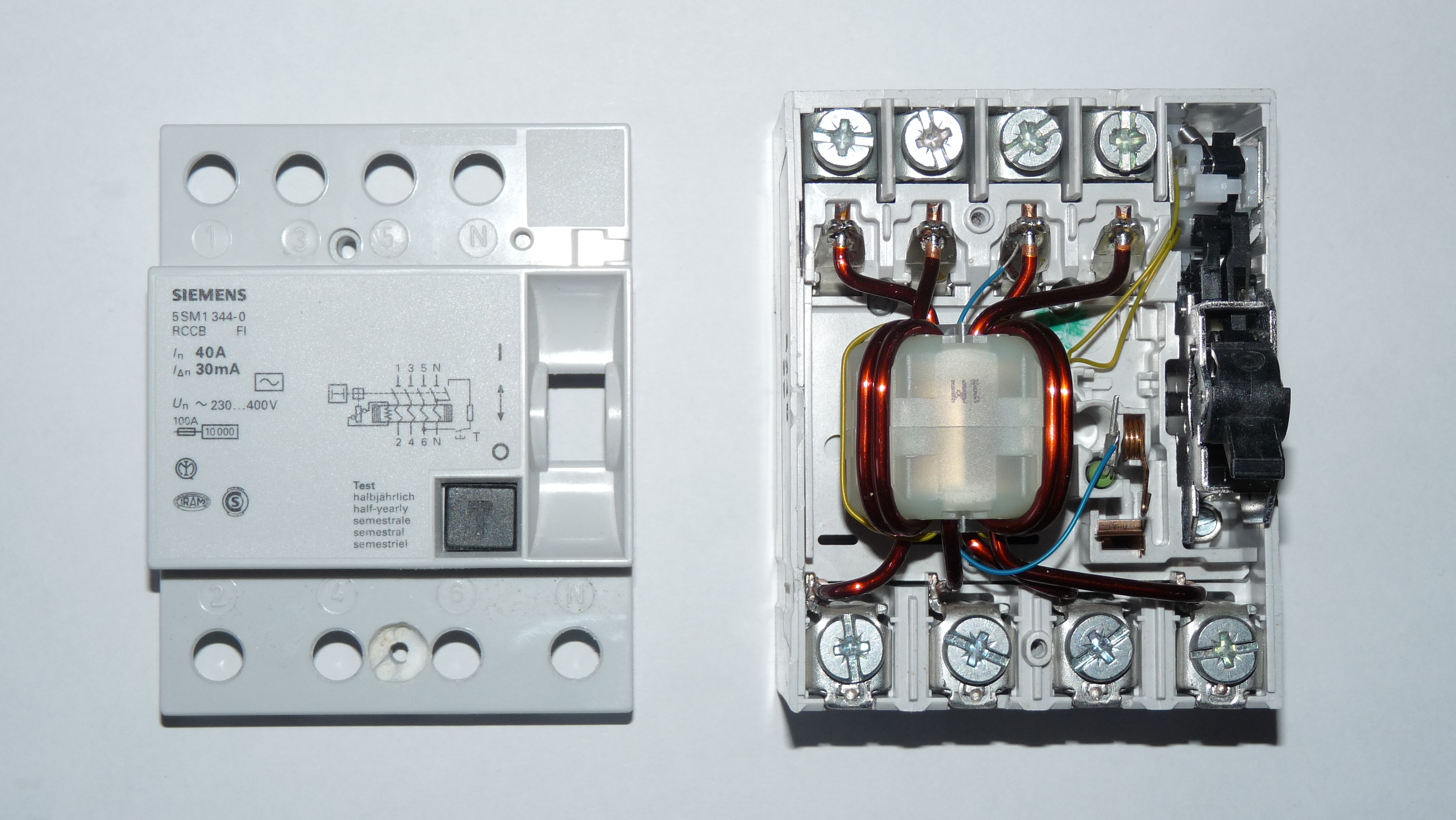 Disassembled Siemens RCD; I=40A, ΔI=30mA.